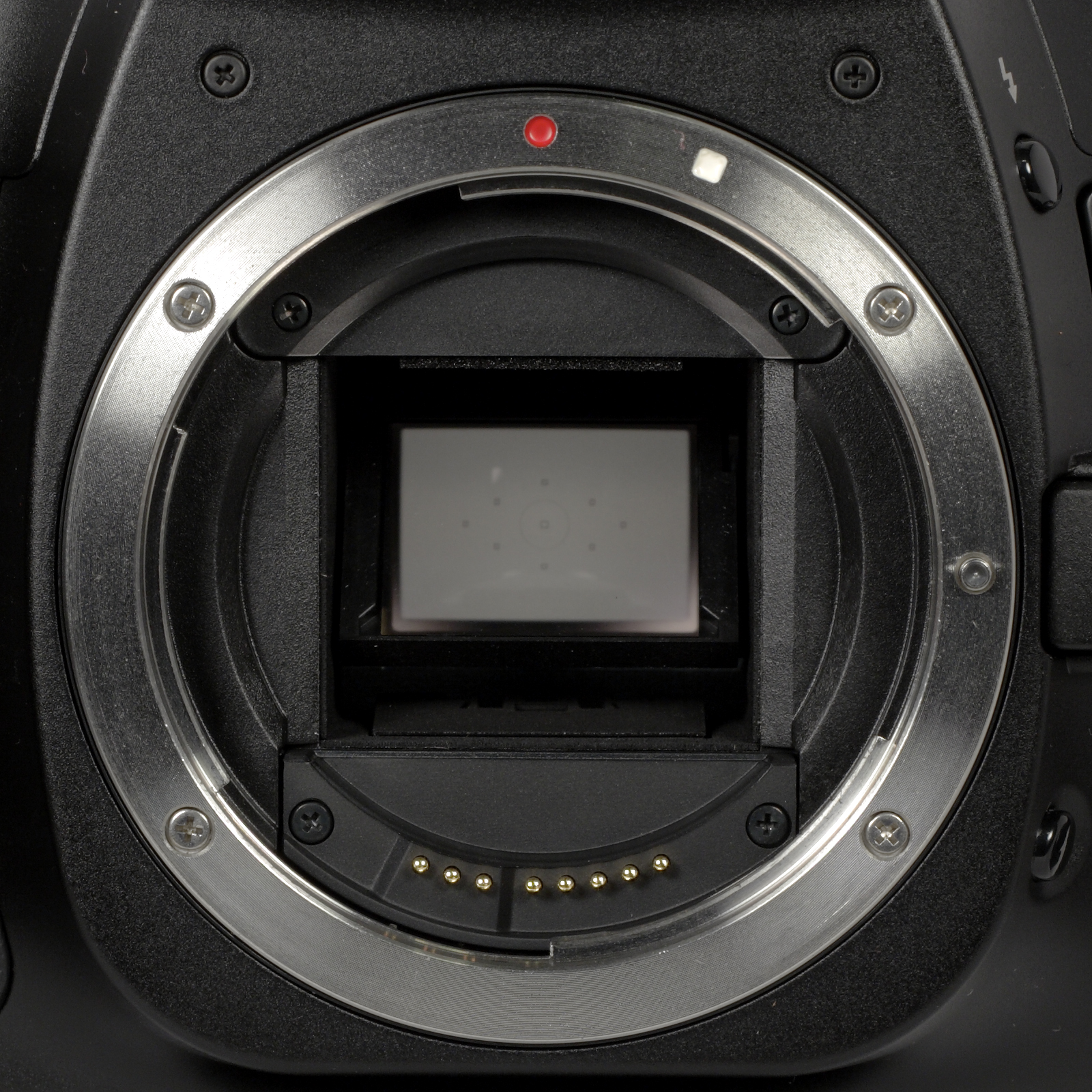 Photo of the mount used by Canon EF-S mount cameras.